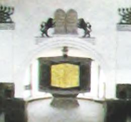 Interior of the synagogue Sha'are Zedeck in San Juan, Puerto Rico